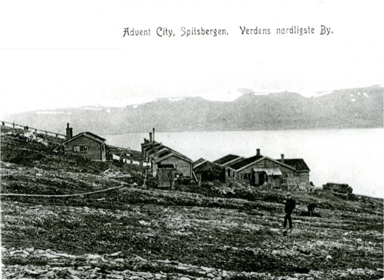 Image from the Svalbard Museum collection. Post card from Mittet&Co, depicting Advent City coal mining town at the Northern coast of the Advent Fjord. This township was established in 1905 and totally abandoned in 1908, se the image is from latest 1908. Author unknown.